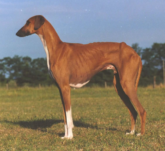 Azawakh male Greboun de Garde-Epée, World Winner, French Champion.